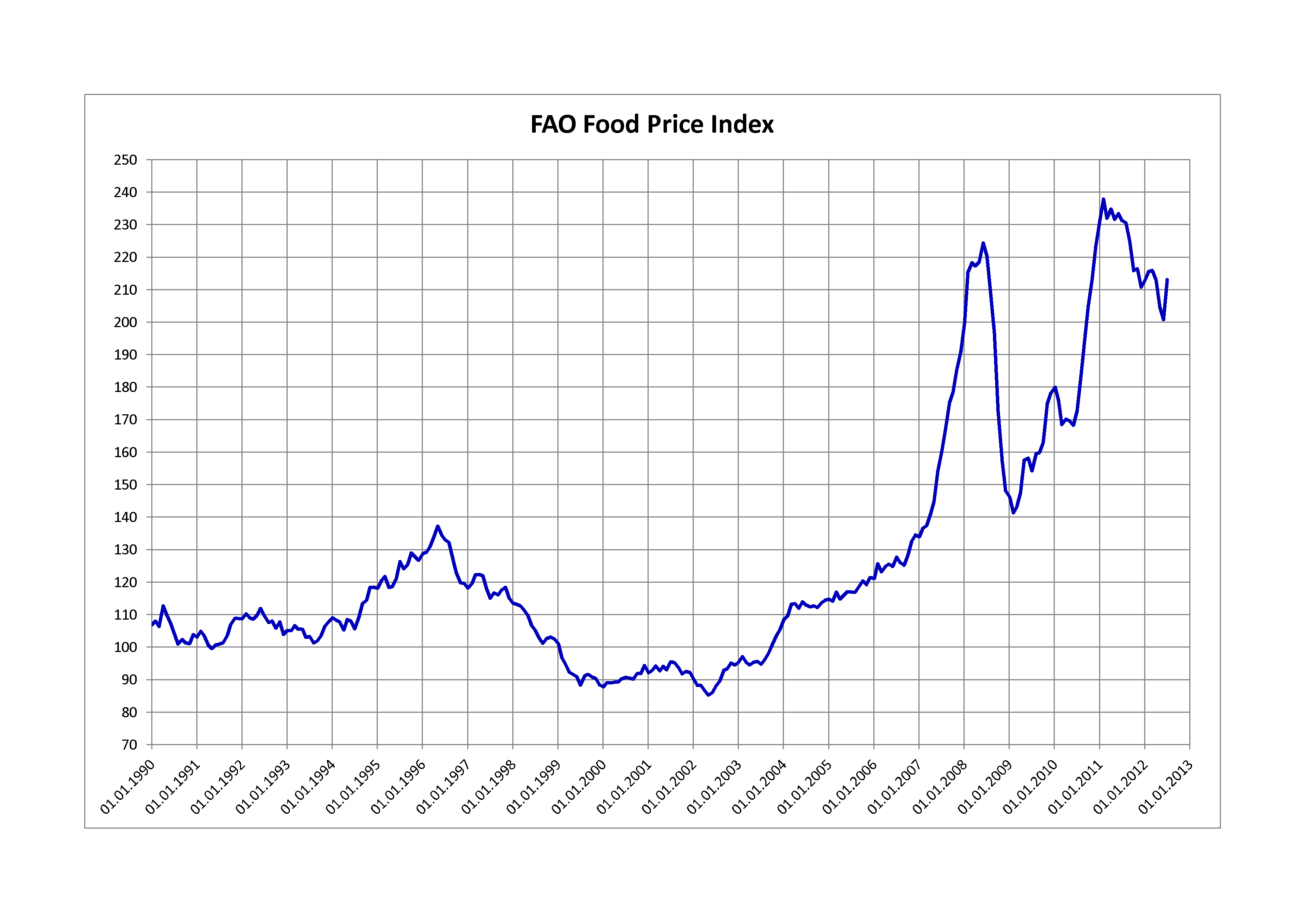 FAO Food Price Index from January 1990 to July 2012 (monthly data)